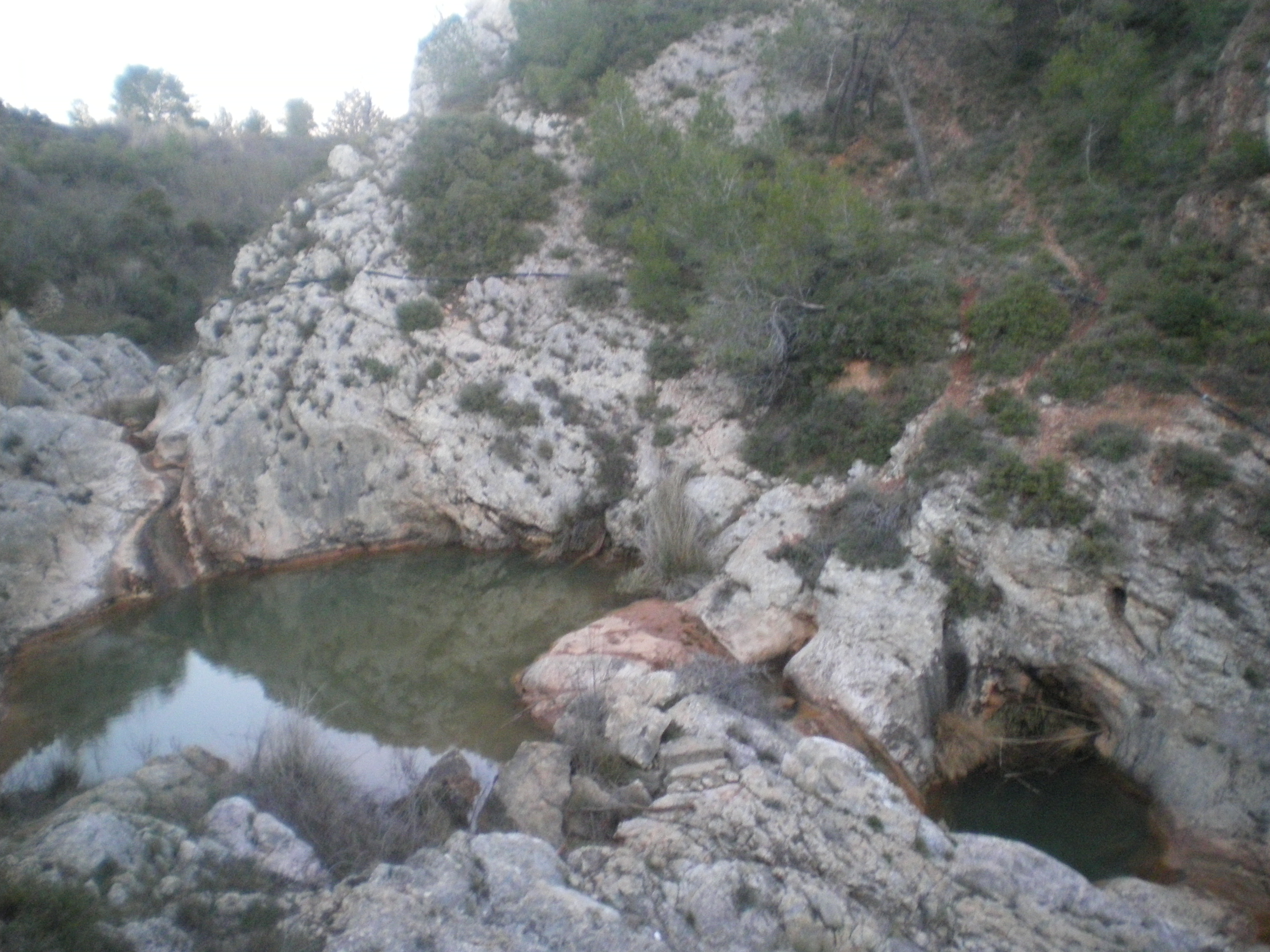 Le "gourg de Fichous" at Puisserguier, département (Hérault). Le "gourg de Fichous" is a karstic hole with fresh water - even in summer (description from french wikipedia page Puisserguier).